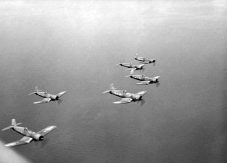 Royal New Zealand Air Force Vought F4U-1 Corsair fighters over Bougainville, on 17 January 1945.